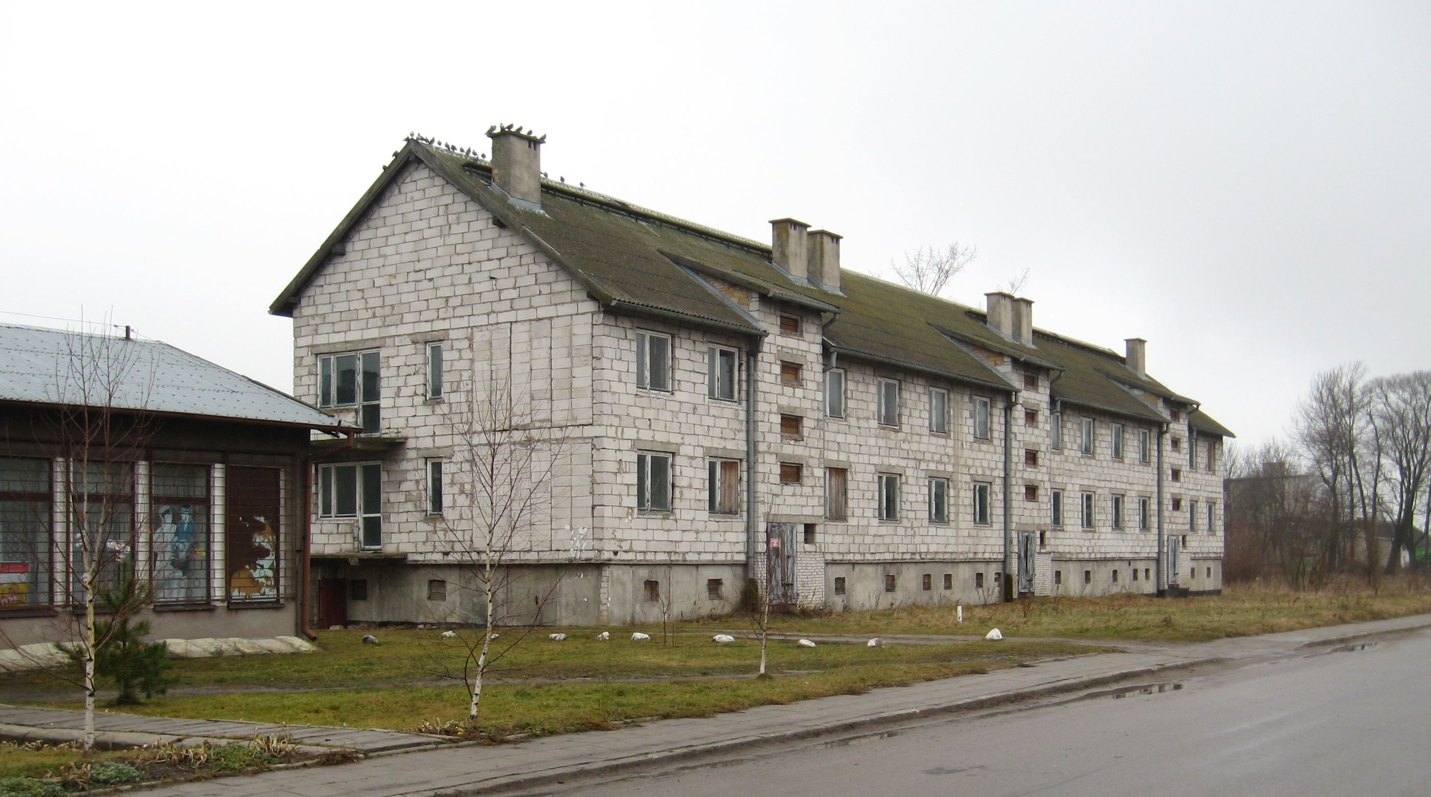 The village Podławki in Poland - OpenStreetMap (Info)